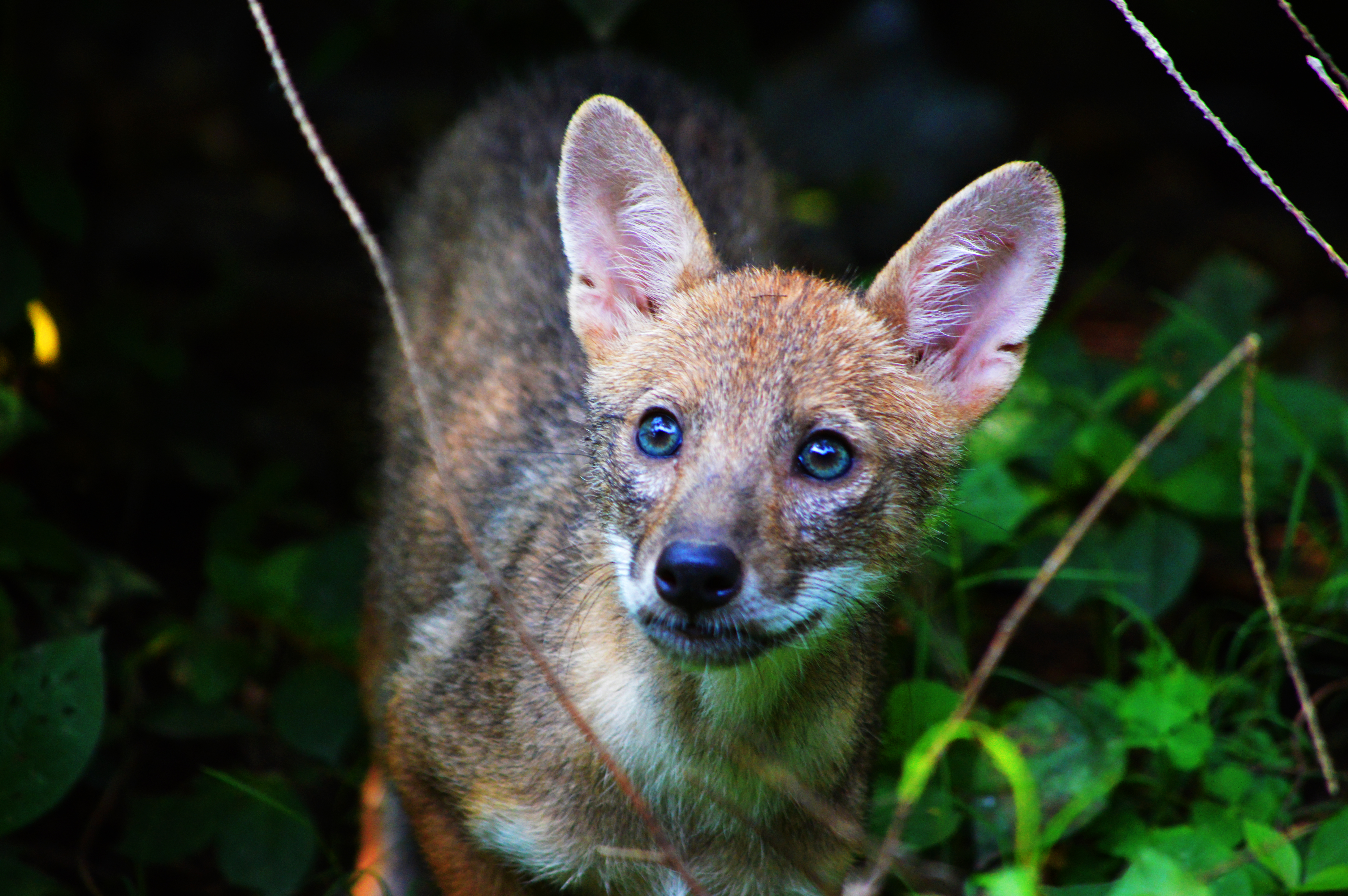 A little Indian jackal (Canis aureus indicus). The picture was taken at Tehatta (West Bengal, India)